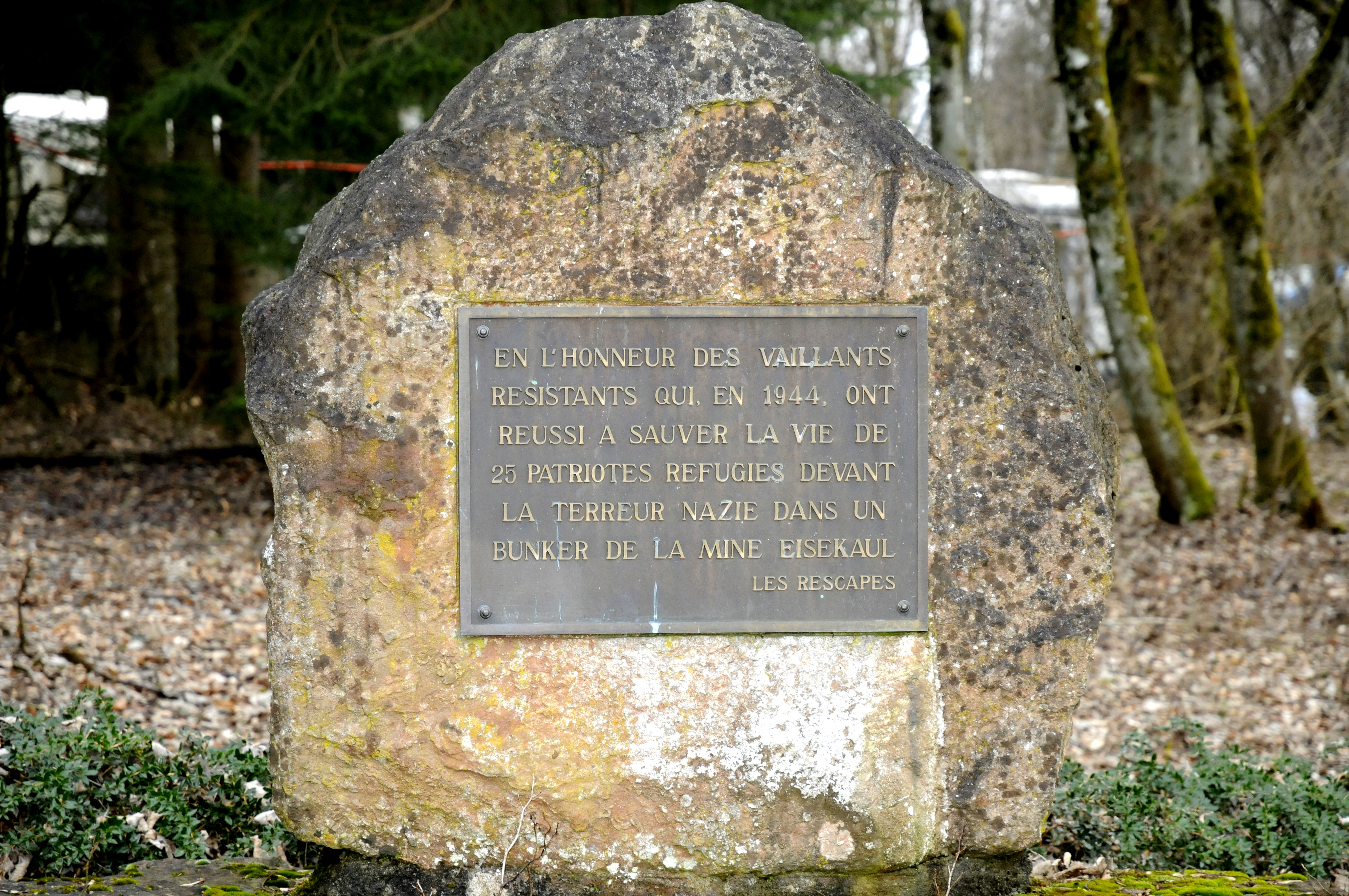 1944 Resistance monument, Gaalgebierg, Esch-sur-Alzette.